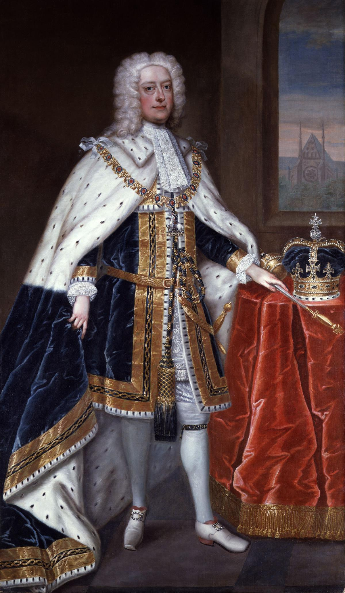 Companion portrait to Caroline of Ansbach, NPG 369